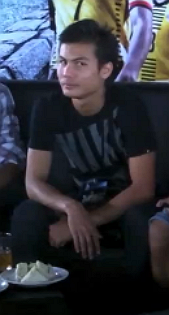 Mohd Muslim Ahmad